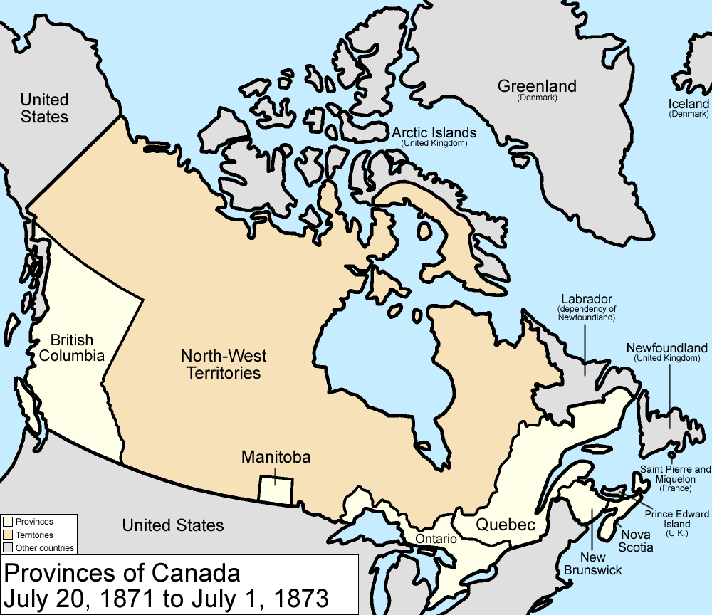 Map of the provinces and territories of Canada as they were from 1871 to 1873. On July 20 1871, British Columbia joined as a province. On July 1 1873, Prince Edward Island joined as a province. Made by User:Golbez.